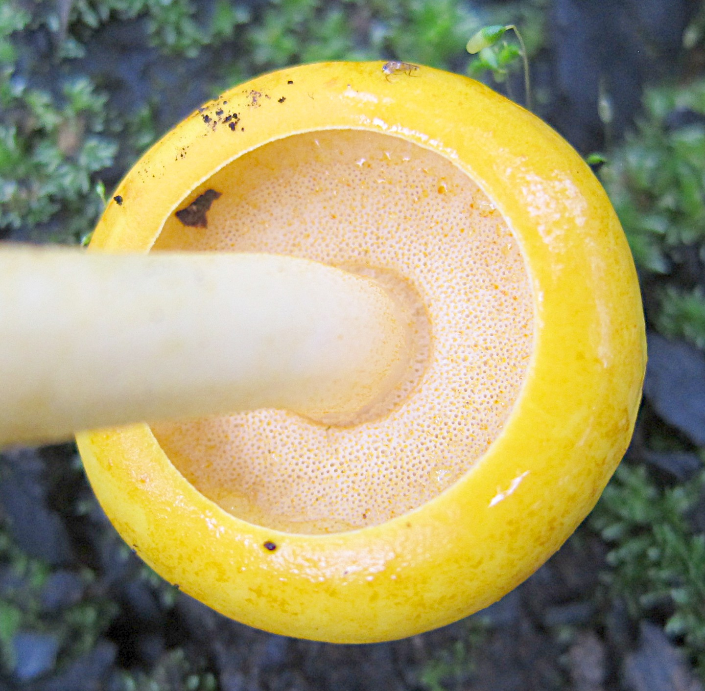 View of the underside (pore surface) of the bolete fungus Boletus curtisii Berk. Specimen found in Cortadura, Veracruz, Mexico.